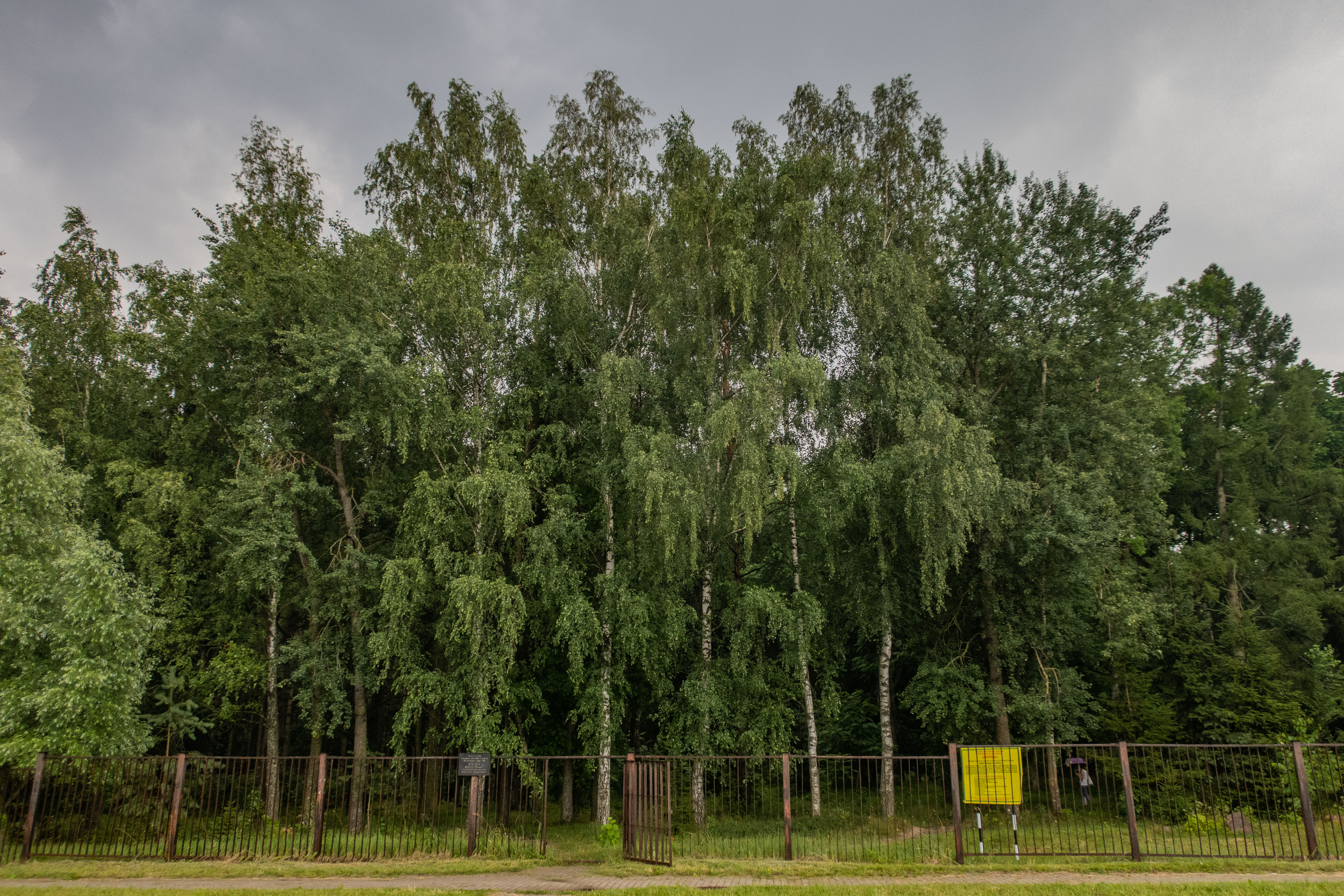 Republican natural monument "Dubrava Ščomyslickaja" (Oak grove of Ščomyslica). Minsk district, Belarus